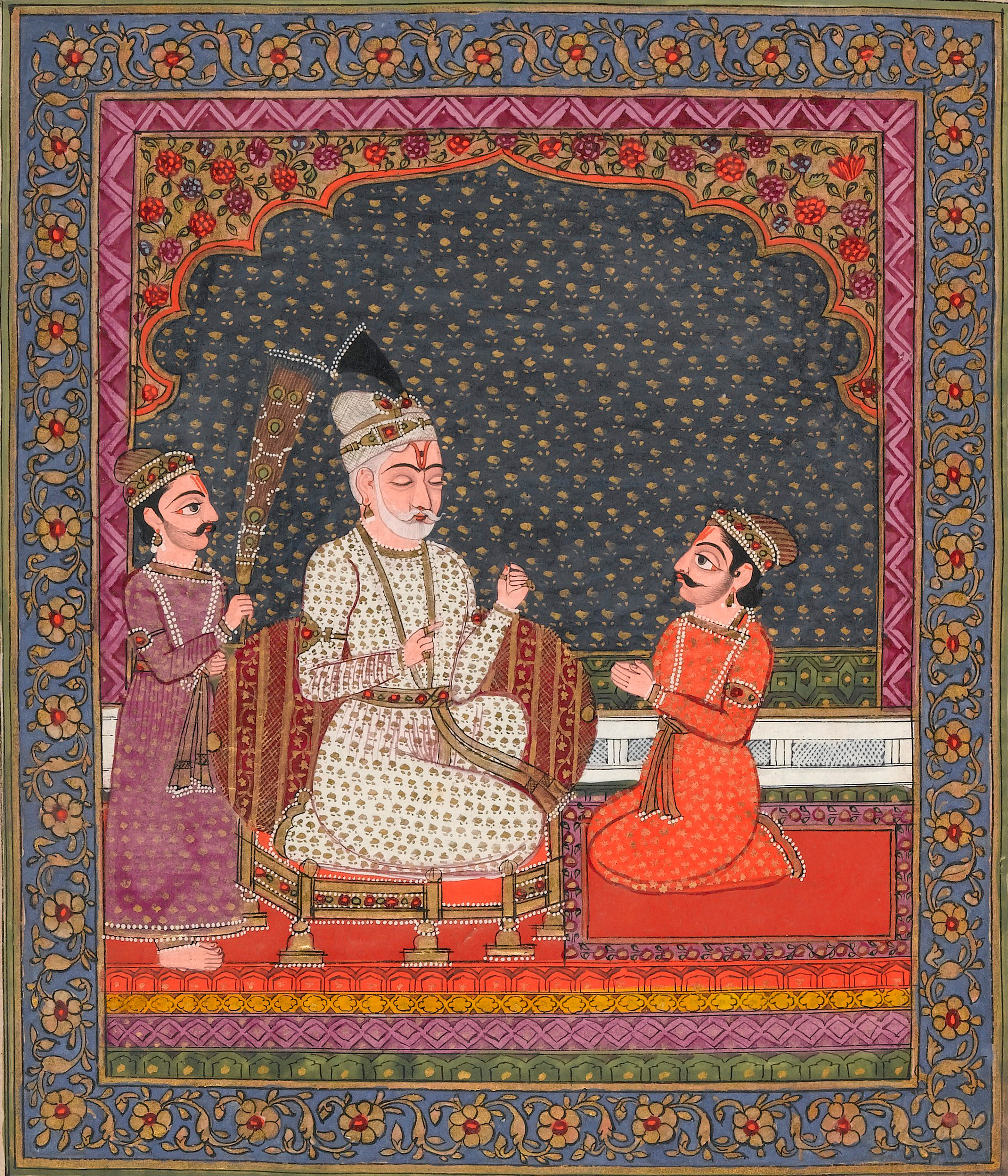 Seated on the throne and served by an attendant waving a whisk made of peacock feathers, the blind king Dhrtarastra listens as the visionary narrator Sanjaya relates the events of the battle between the Kaurava and the Pandava clans